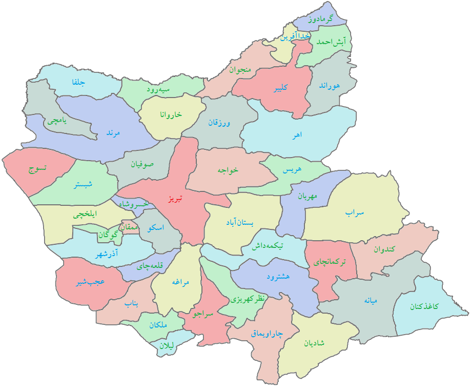 East Azarbaijan Parts